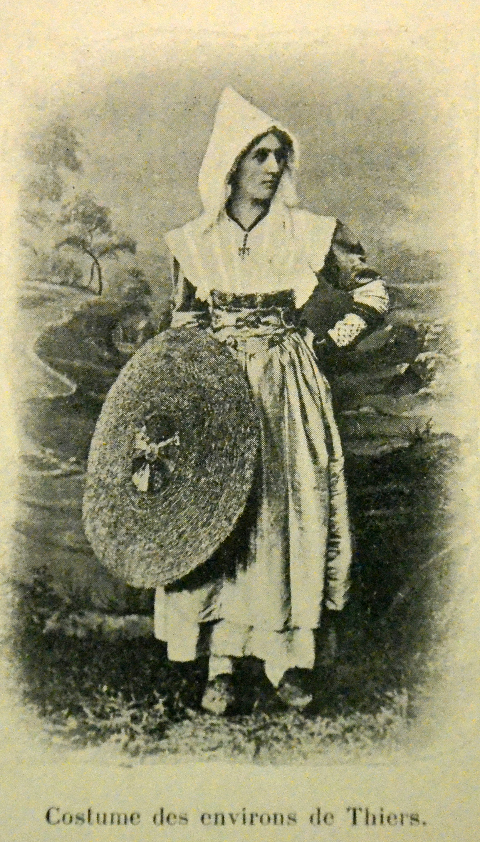 Old photo captioned "Costume from around Thiers," found in an old article in the french "Revue illustrée" (Bound Tome 1902) ; arcticle is entitled "Sensations d'Auvergne"